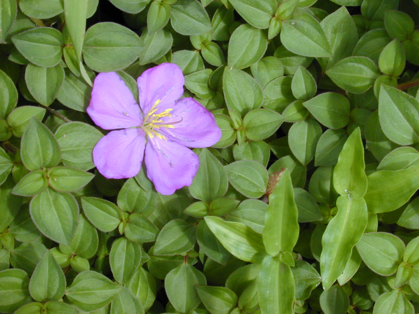 Dissotis rotundifolia (flower and leaves). Location: Maui, Nahiku